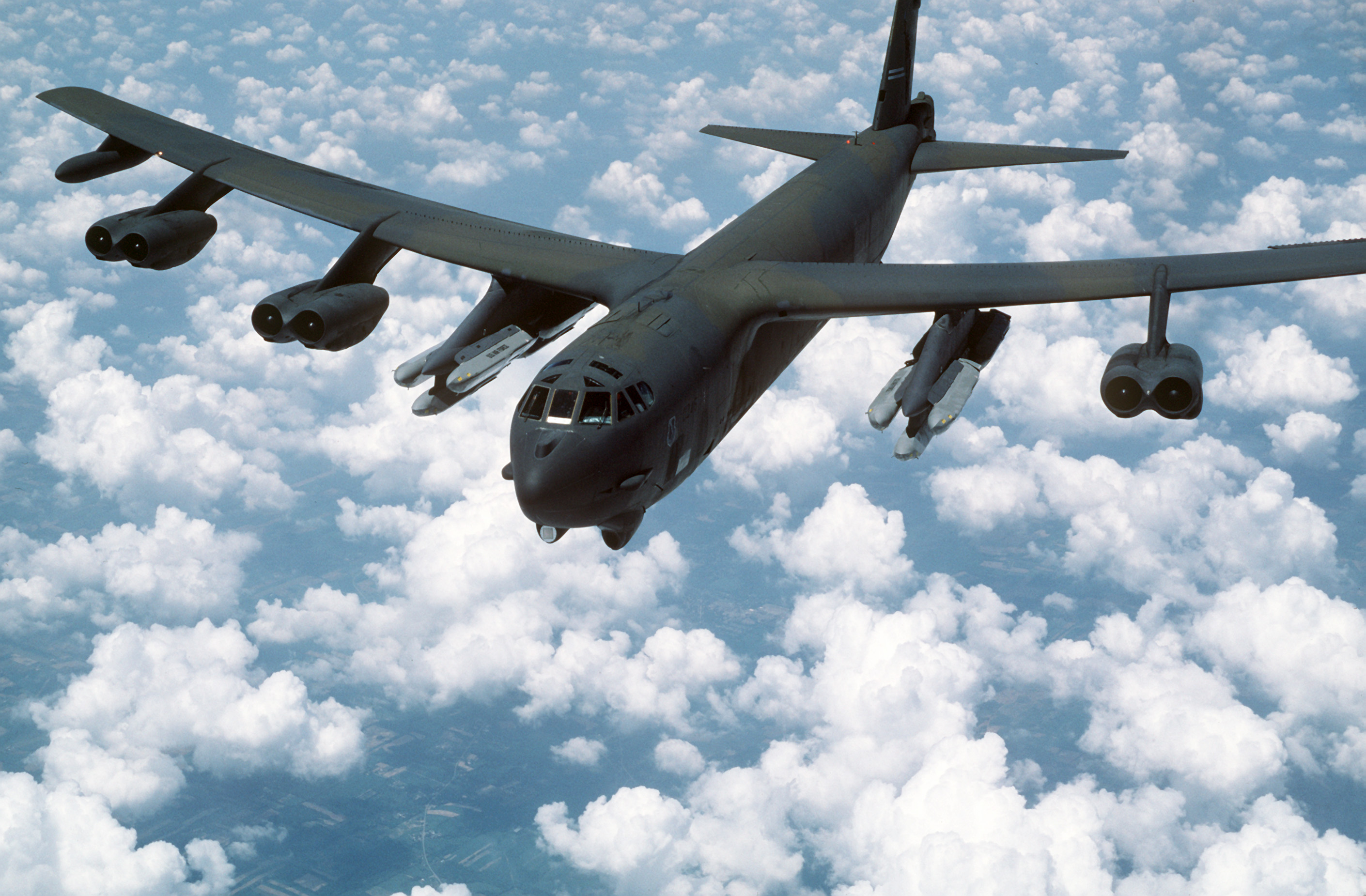 An air-to-air front view of a B-52G Stratofortress aircraft from the 416th bombardment Wing armed with AGM-86B air-launched cruise missiles (ALCMs).